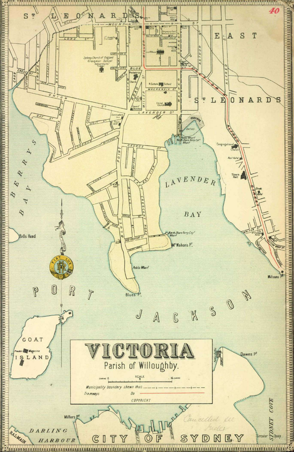 Borough of Victoria (1885), map in Atlas of the Suburbs of Sydney by Higinbotham, Robinson and Harrison.